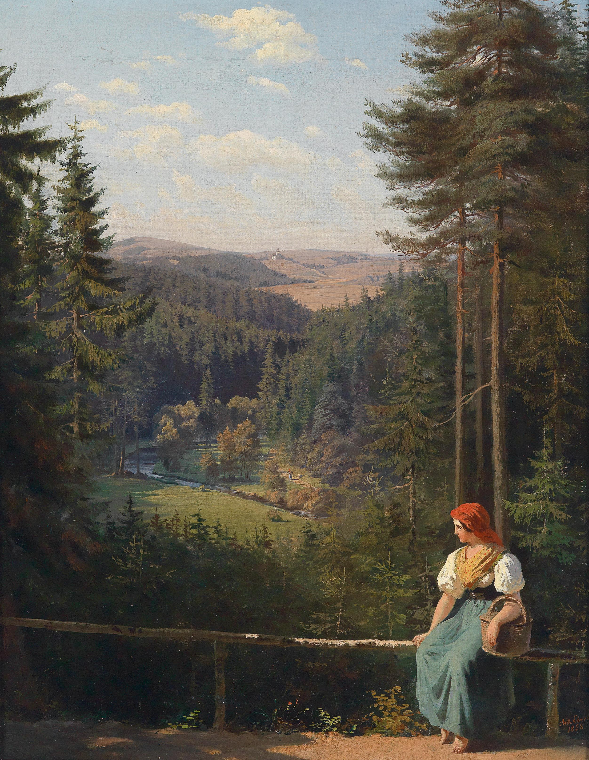 Possibly